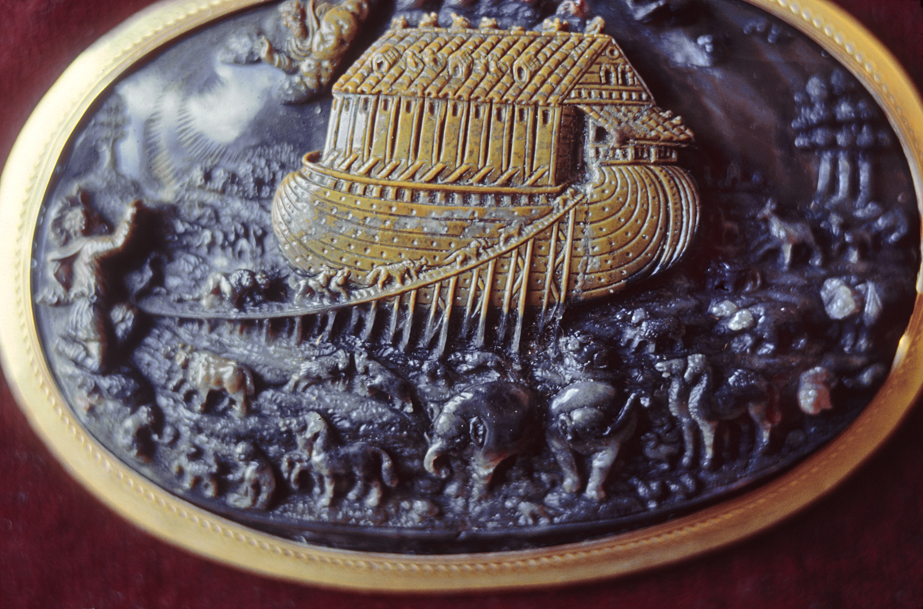 The style of carving, subject, and choice of stone point to Allessandro Masnago who worked in Milan around 1600, often on commission from the Emperor Rudolf II in Prague and from other courts north of the Alps. This piece is said to come from the collection of the dukes of Bavaria. The artist was famous for exploiting the colors of semi precious stones for these tiny, precious narrative images that were so popular with collectors. This composition, featuring a line of animals on the gangway to Noah's ark, is based on a woodcut by the French book illustrator Bernard Salomon (ca. 1508-1561) and was a favorite of the artist's.